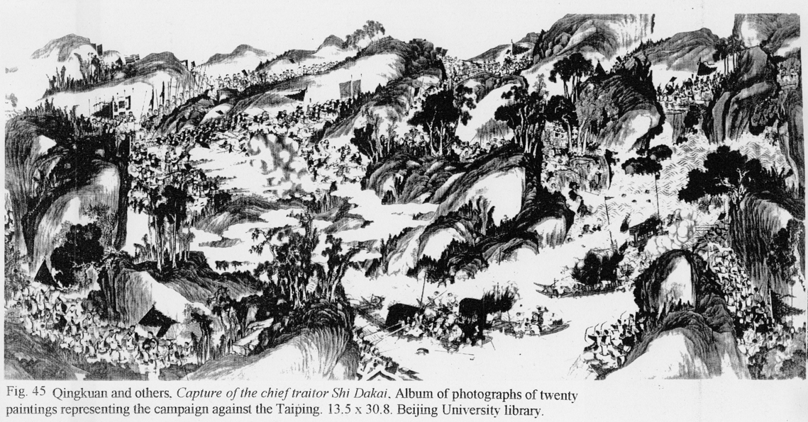 A scene of the Taiping Rebellion, 1850-1864